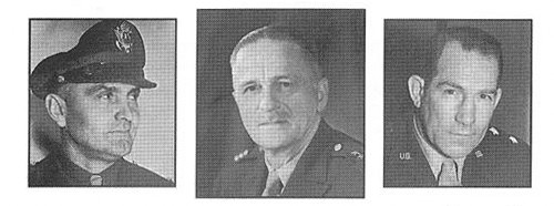 Image from the public domain book A Concise History of the U.S. Air Force by Stephen L. McFarland. According to that page: "Center, Carl Spaatz, Commanding General, United States Strategic Air Forces (USSTAF), in the top command position over America's air chiefs; left, Ira Eaker, Commanding General, Mediterranean Allied Air Forces (MAAF); right, Frederick Anderson, Deputy for Operations, USSTAF".